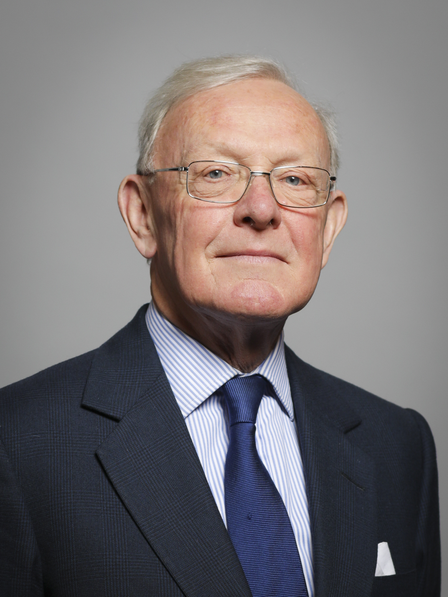 Official portrait of Lord Carrington 3×4 portrait of Lord Carrington